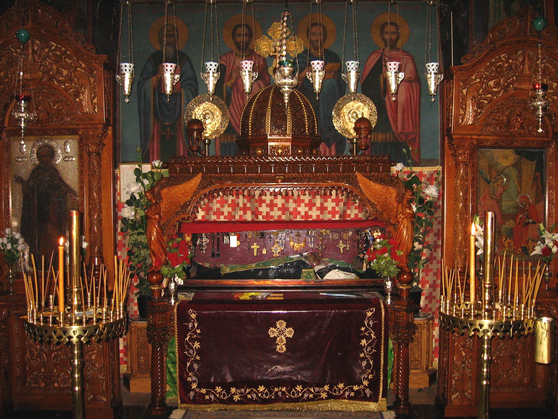 Relics of St. Sabbas the Sanctified in the Catholicon (main church) of the Eastern Orthodox Mar Saba monastery in Palestine (now West Bank).